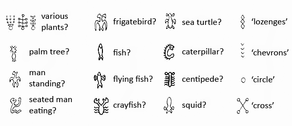 Rongorongo pictographic signs and what they may represent. The captions in the right-most column are merely descriptive.